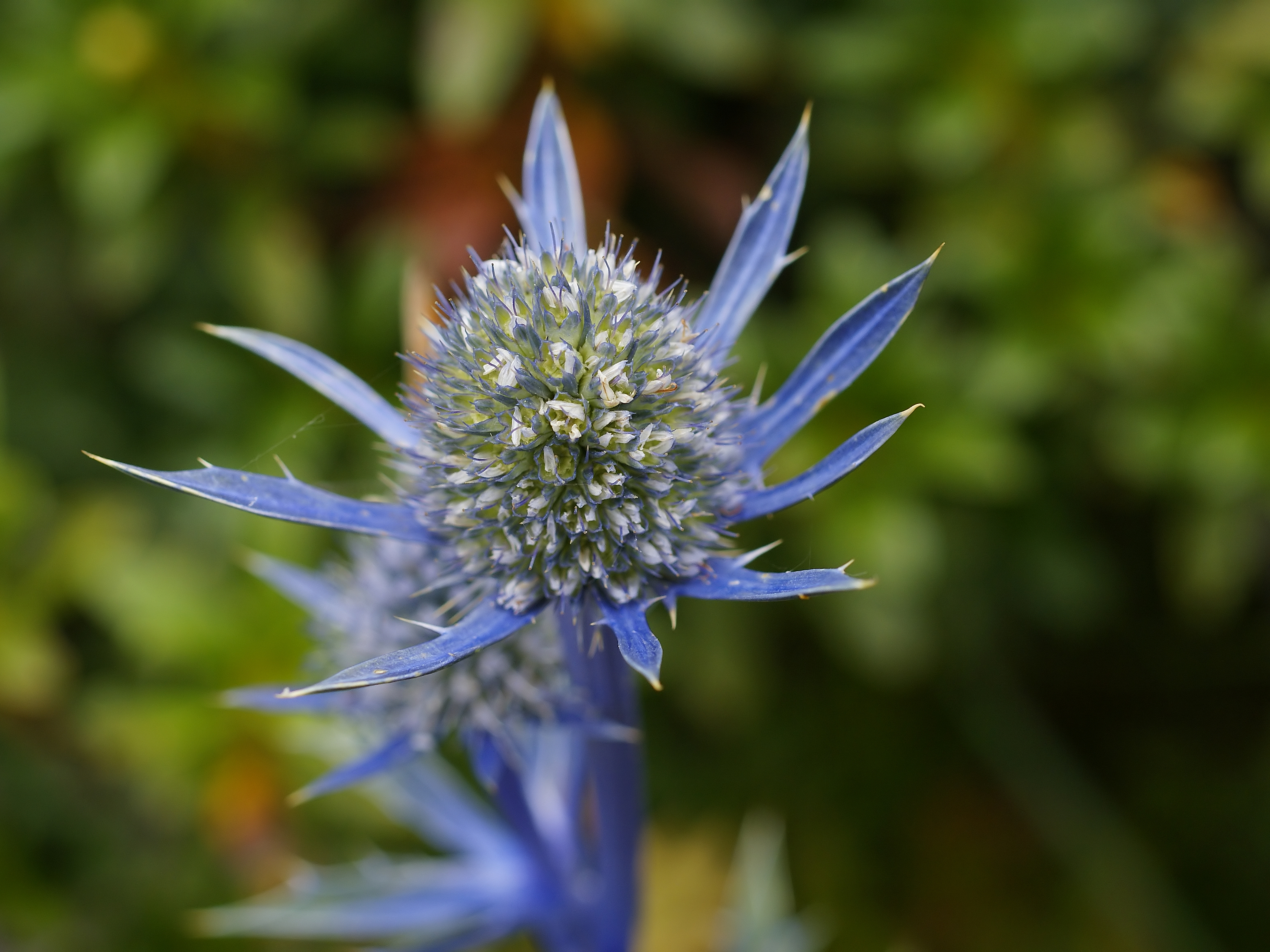 Mediterranean Sea Holly near El Serrat in Andorra.